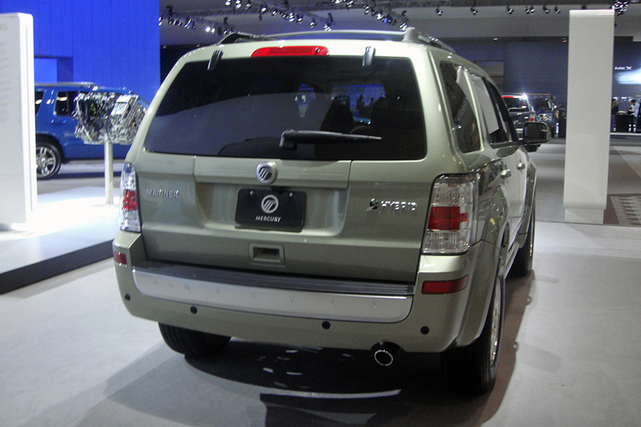 2010 Mercury Mariner Hybrid at the 2010 Washington Auto Show